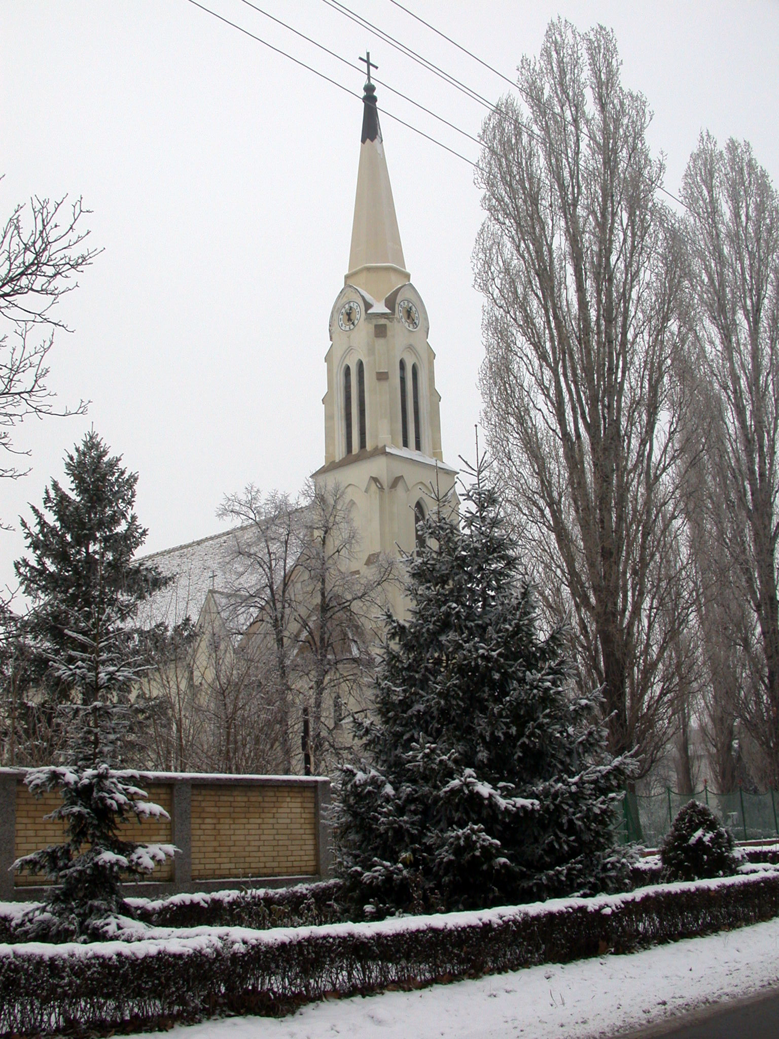 Parish-church of Mary Name in Mužlja in winter under snow and with rimes on 11. I. 2008